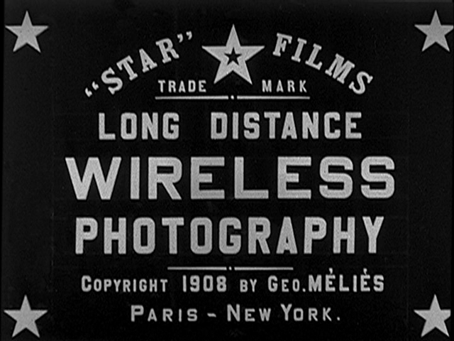 Title card from Georges Méliès's film Long Distance Wireless Photography (1908).